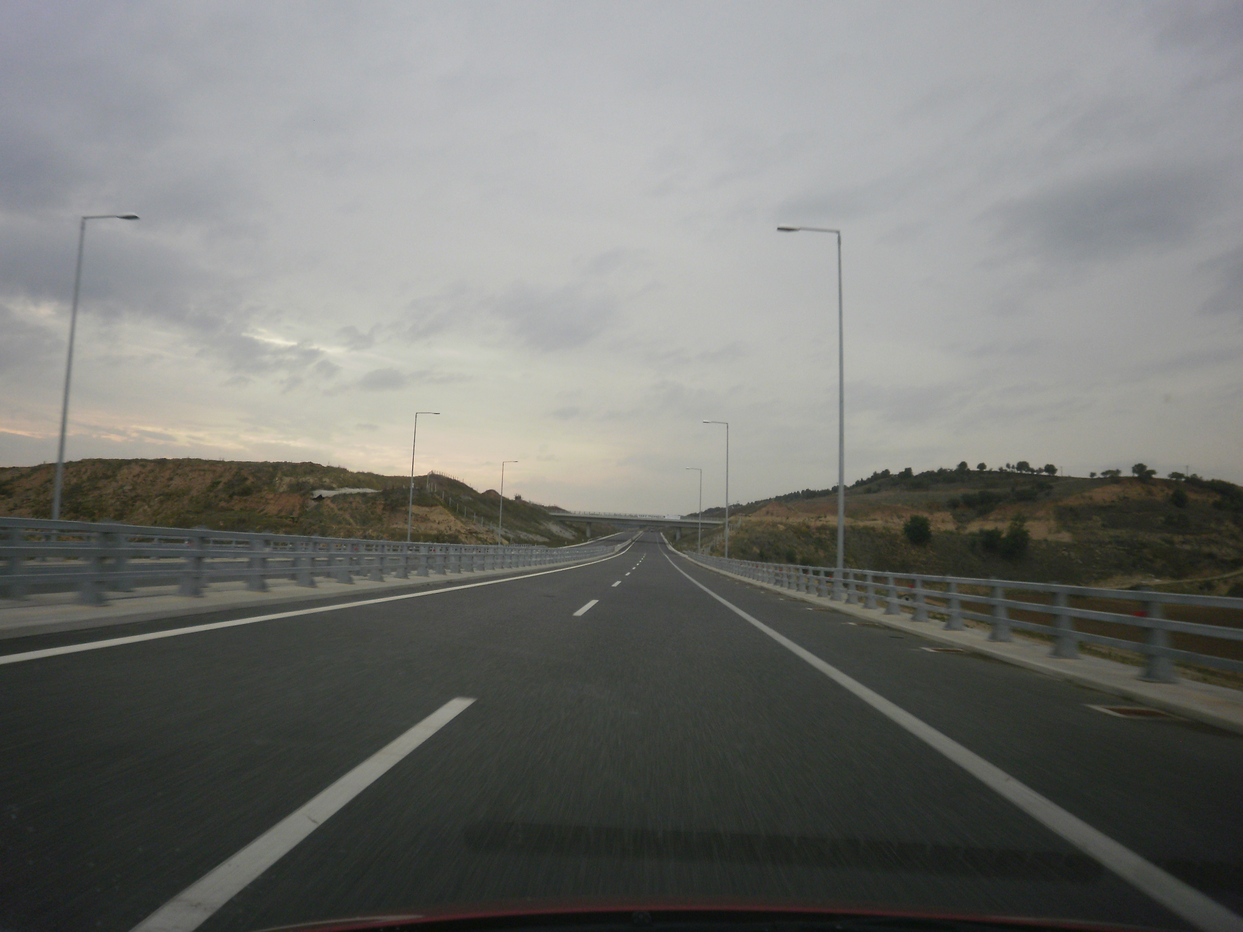 Greek Motorway A29 (Siatista-Kastoria-Koromilea), Section Mikrokastro-Neapoli.